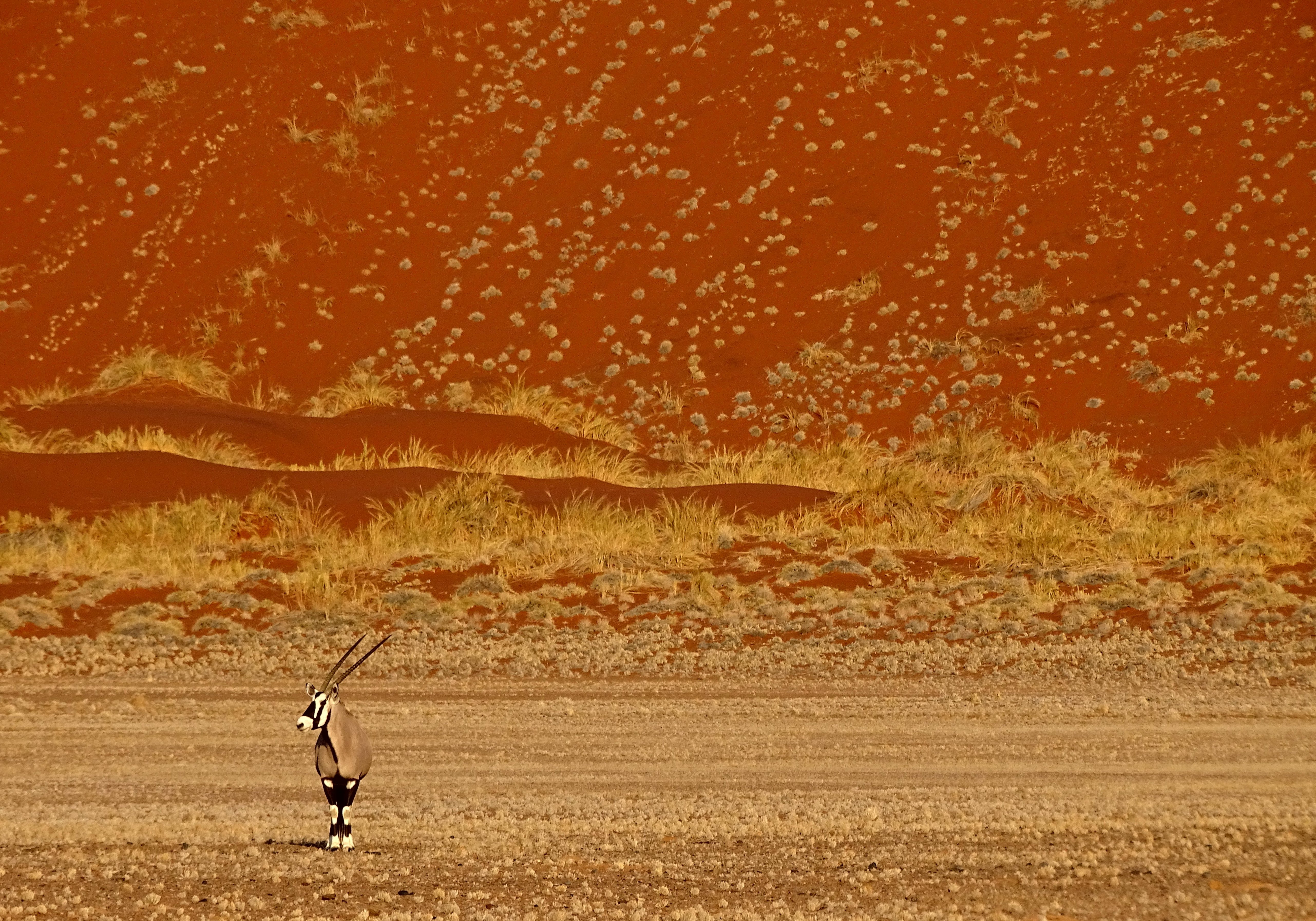 An oryx/gemsbok posing in the dunes early in the morning in the Namib-Naukluft National Park in Namibia.